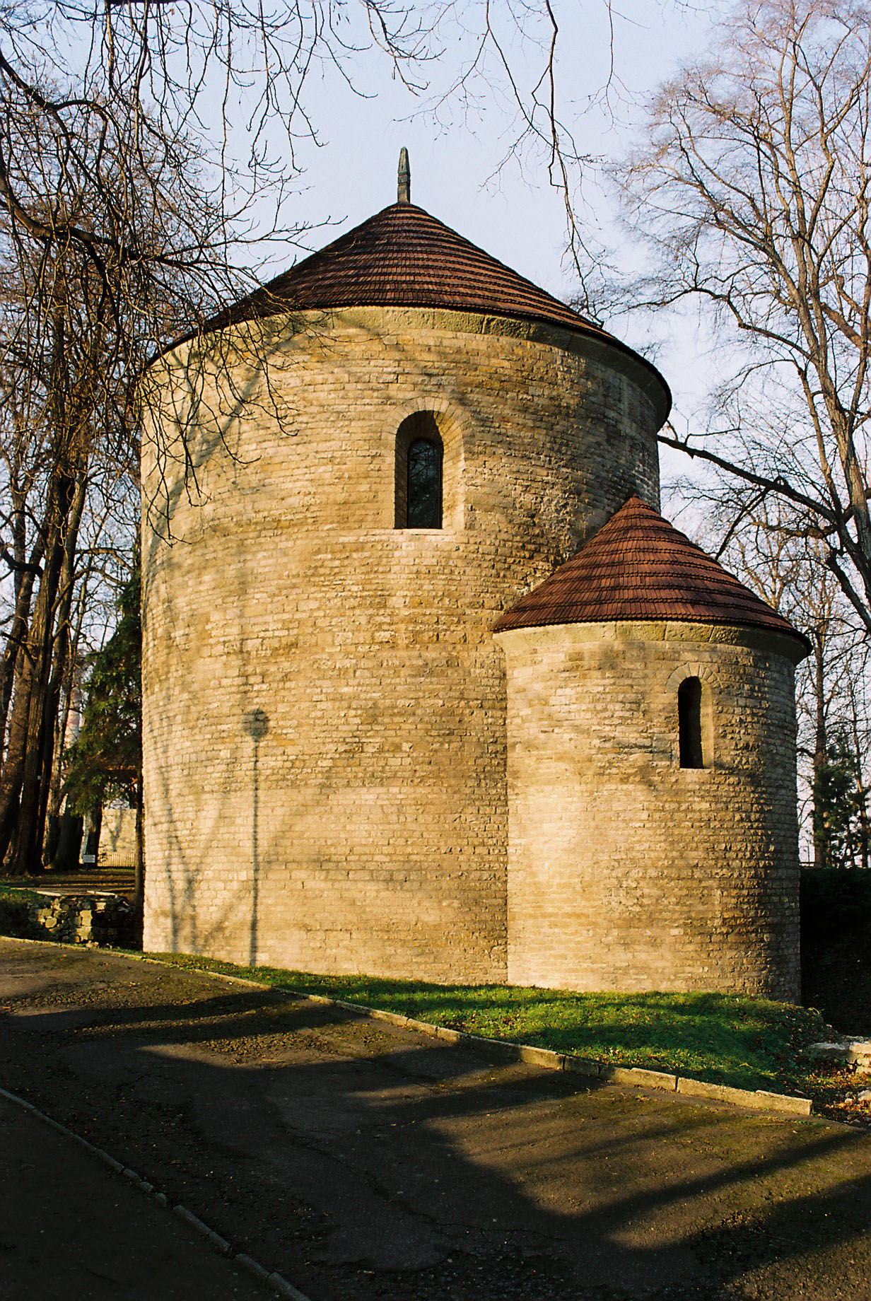 Cieszyn, Poland, rotunda of St. Nicholas on the castle hill, dating back from 11th century